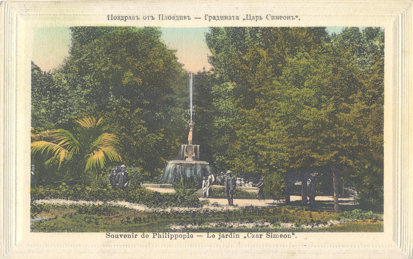 Postcard from Tsar Simeon Garden, Plovdiv, Bulgaria